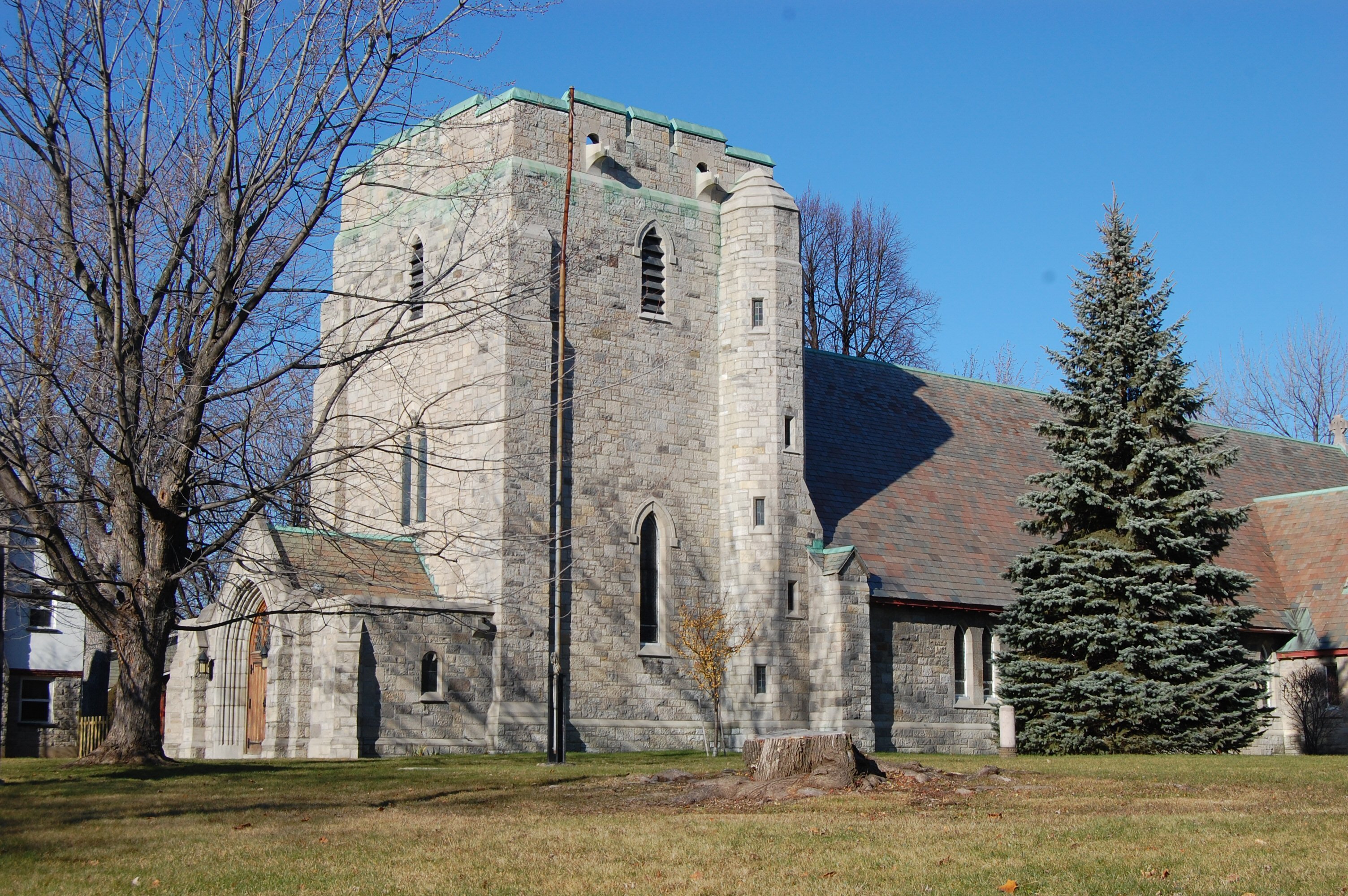 St.Philip's Church in Montreal-West